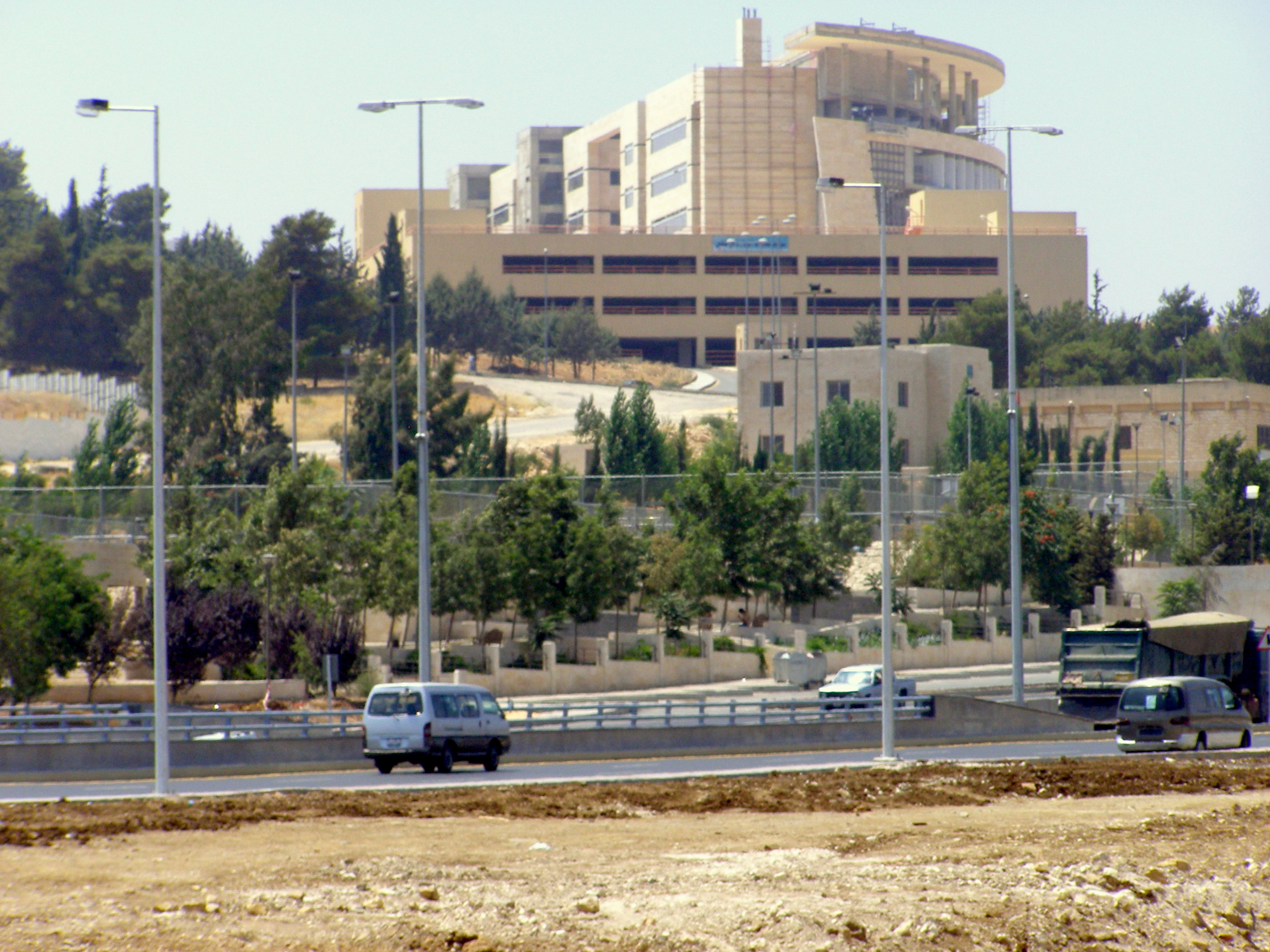 Queen Rania Hospital for Children